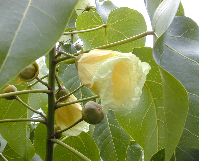 Milo (Thespesia populnea) leaves, flower, and fruit photographed in Hawai‘i (windward O‘ahu) by Eric Guinther (Marshman).